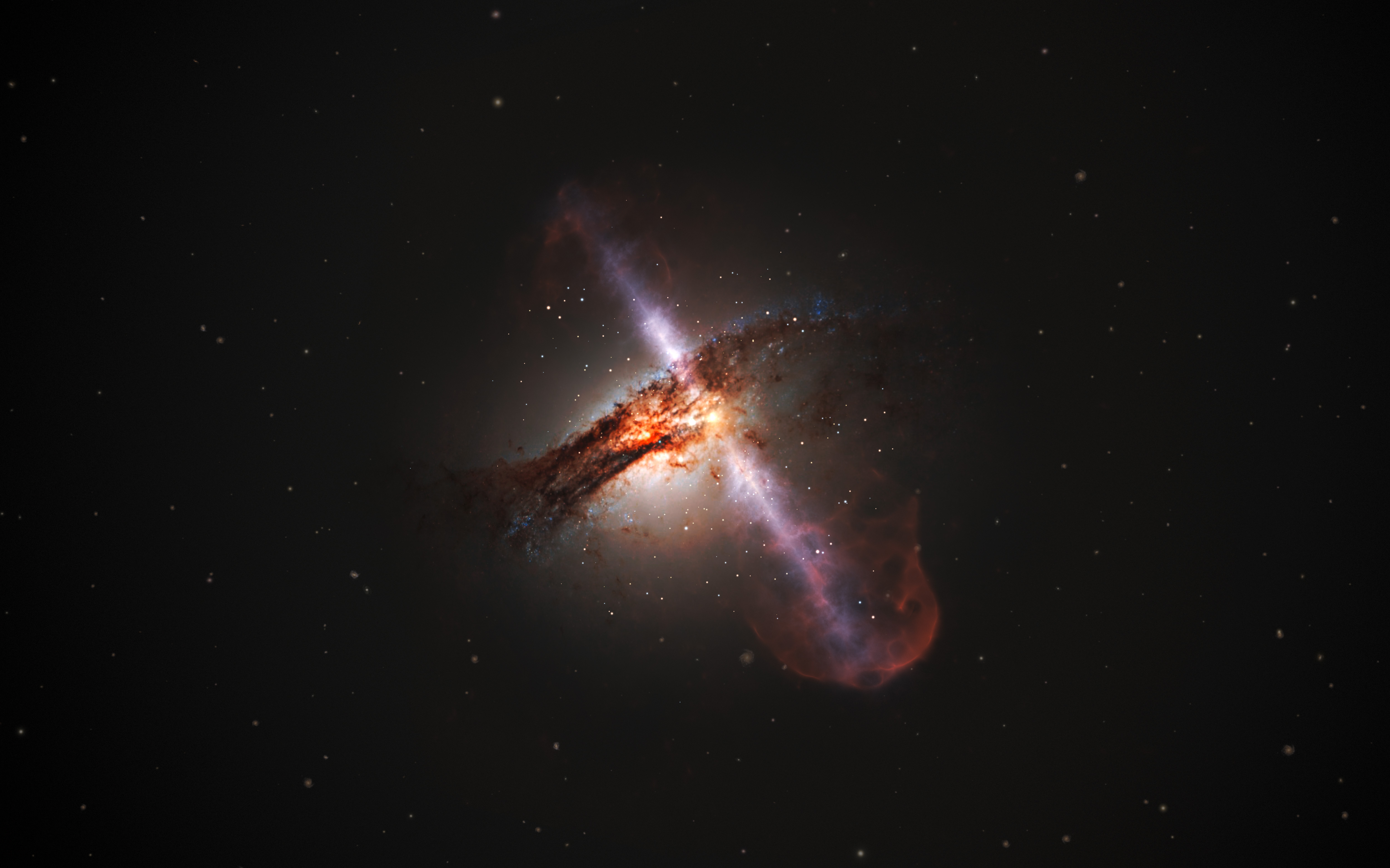 This artist’s impression illustrates how high-speed jets from supermassive black holes would look. These outflows of plasma are the result of the extraction of energy from a supermassive black hole’s rotation as it consumes the disc of swirling material that surrounds it. These jets have very strong emissions at radio wavelengths.